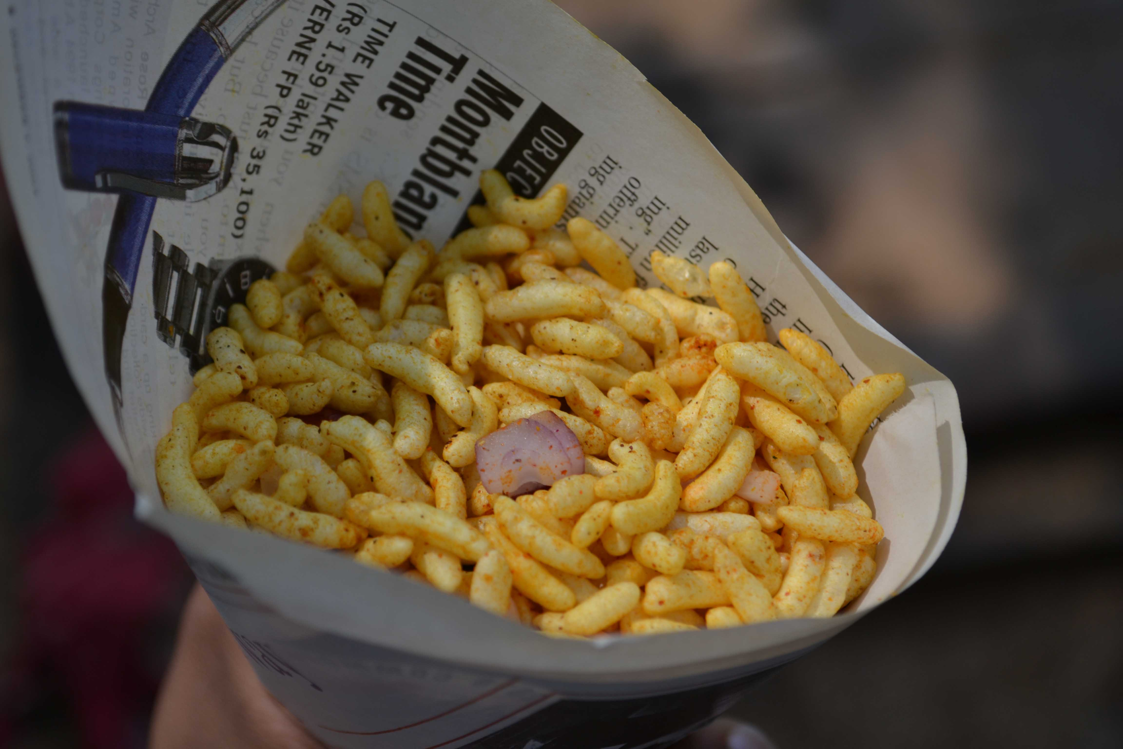 Masala puffed rice or Pori (tamil)